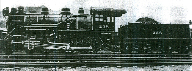 Builder's photo of Tehoshi-class locomotive number 238 built for the Chosen Government Railway by the Baldwin Locomotive Works in 1913.